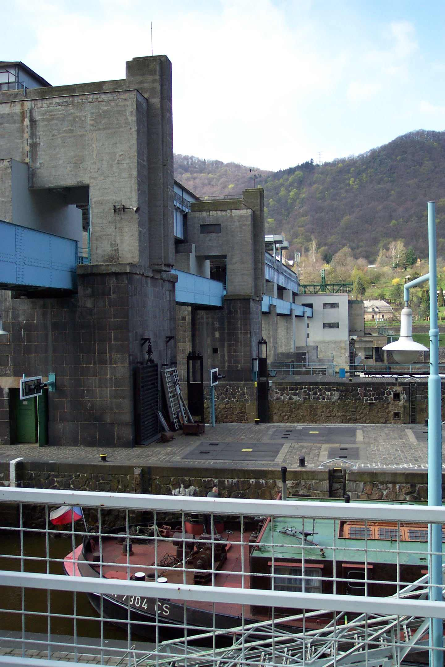 Ústí nad Labem, Střekov, the small hydro power plant of same name